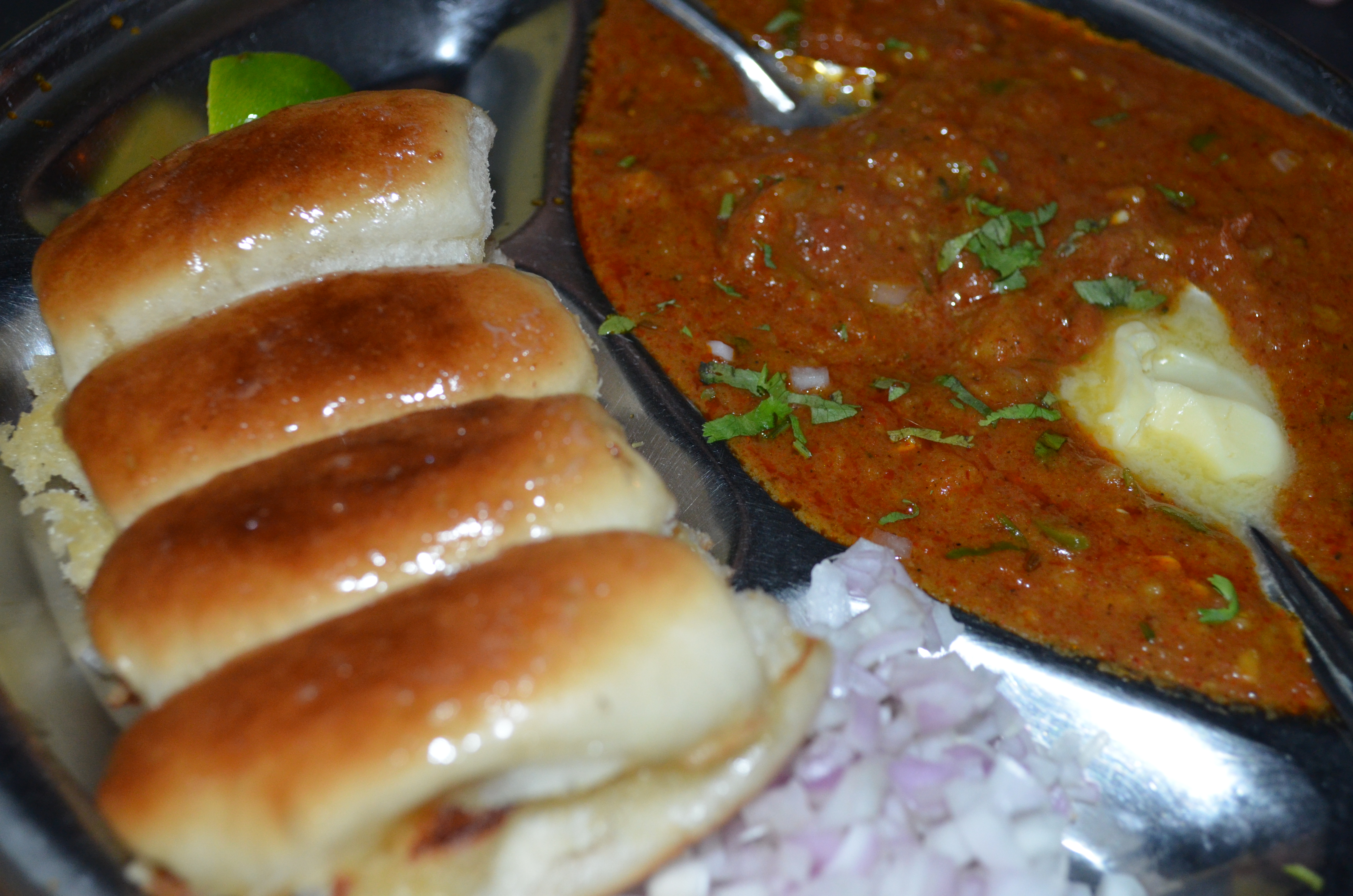 Pav Bhaji is a wonderful street food